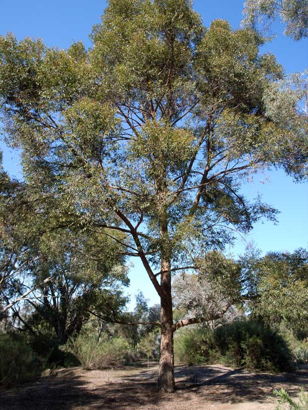 Eucalyptus eugenioides growing in the Australian National Botanic Gardens